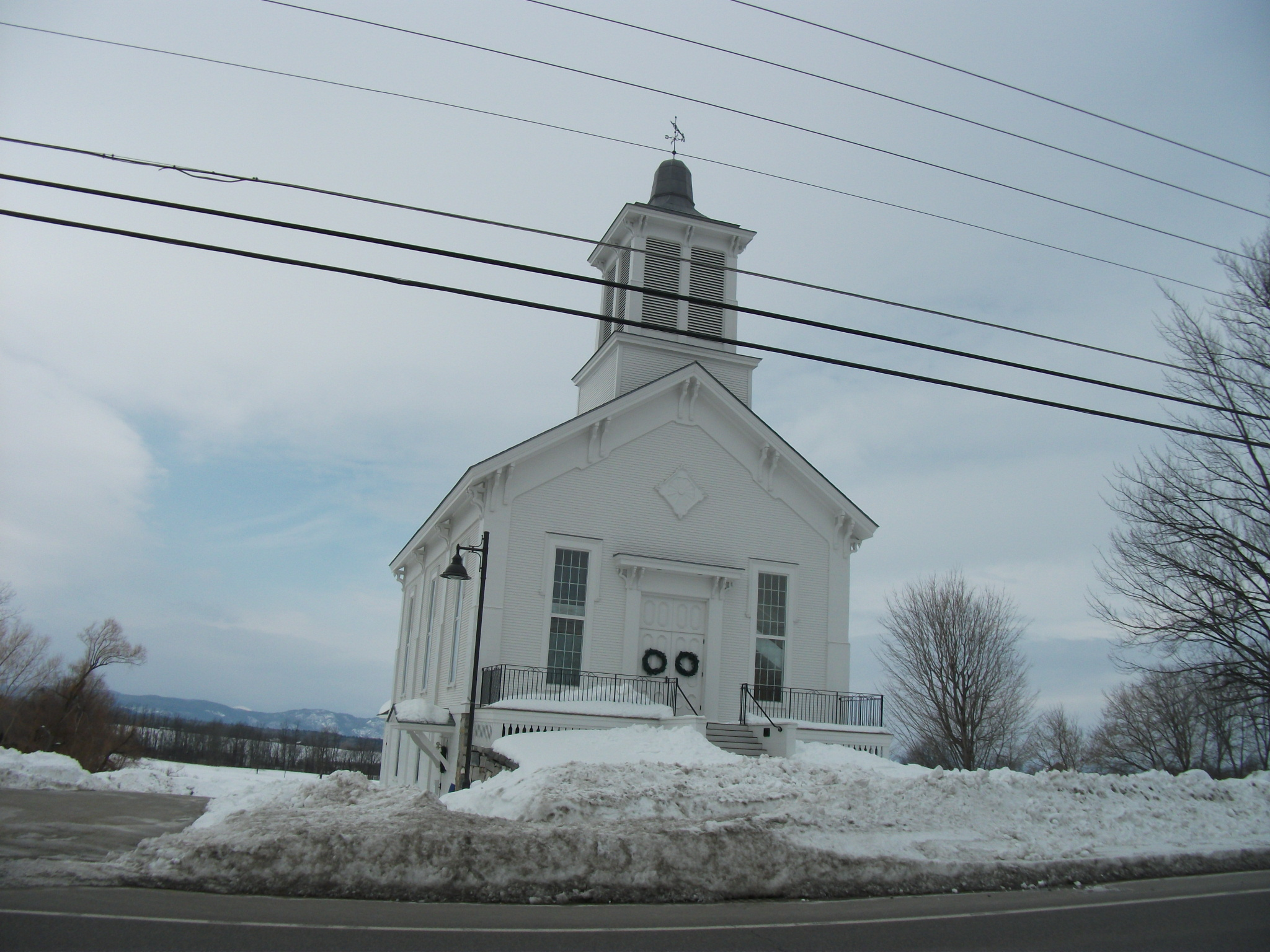 Ferrisburgh Town Grange in Ferrisburgh, Vermont PLEASE NOTE: The author of this work, Doug Kerr, does not endorse me (the uploader) or my use of this work.